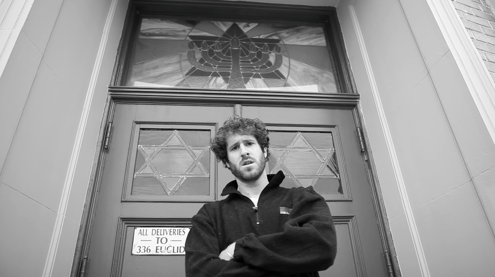 Lil Dicky appearing in the music video for his song "All K"